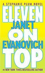 The front cover of the book Eleven on Top by Janet Evanovich